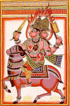 Agni, god of fire, shown riding a goat